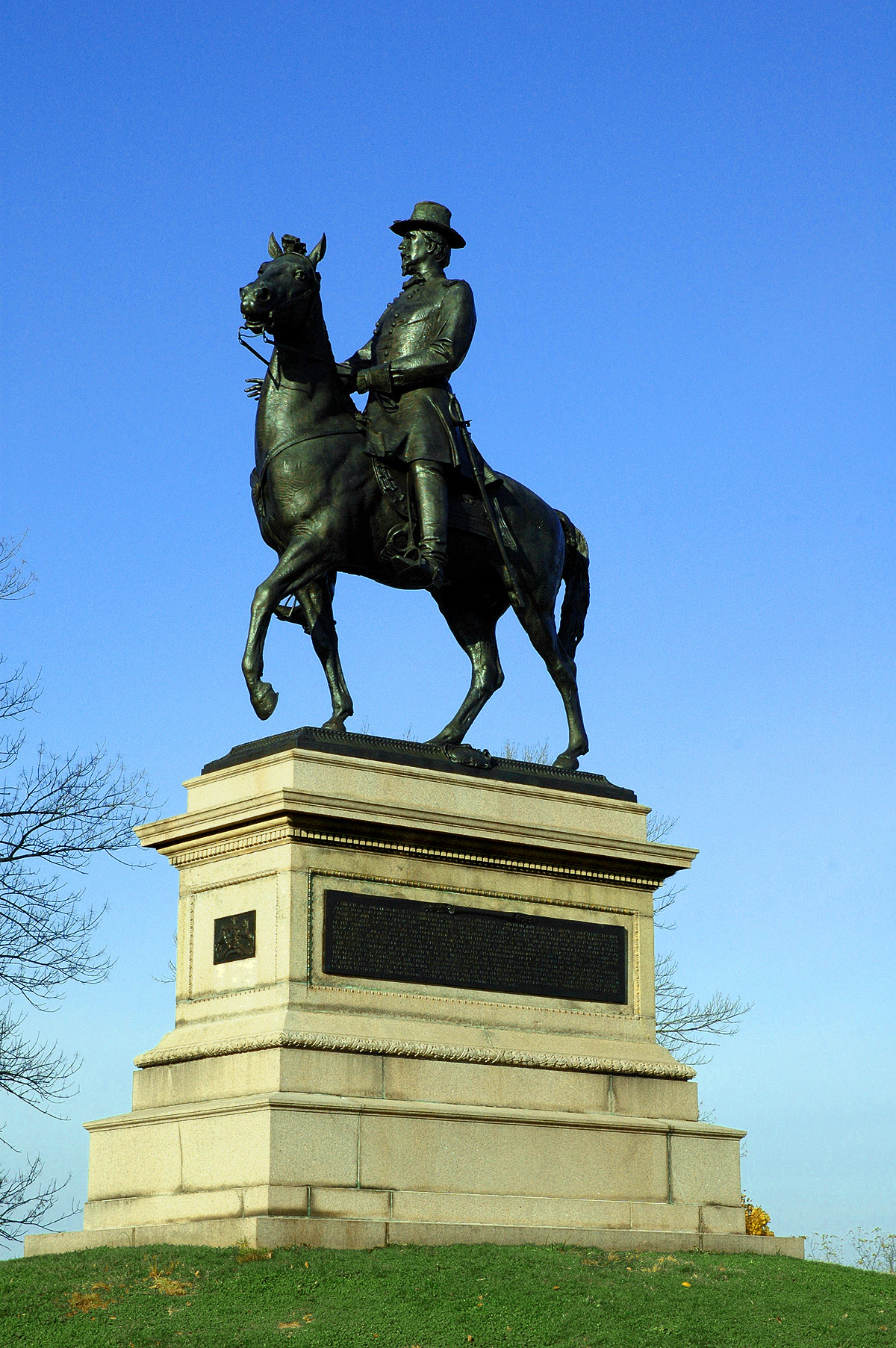 Equestrian statue of Winfield S. Hancock at Gettysburg National Military Park. Photograph donated to Wikipedia by Donald Wiles.